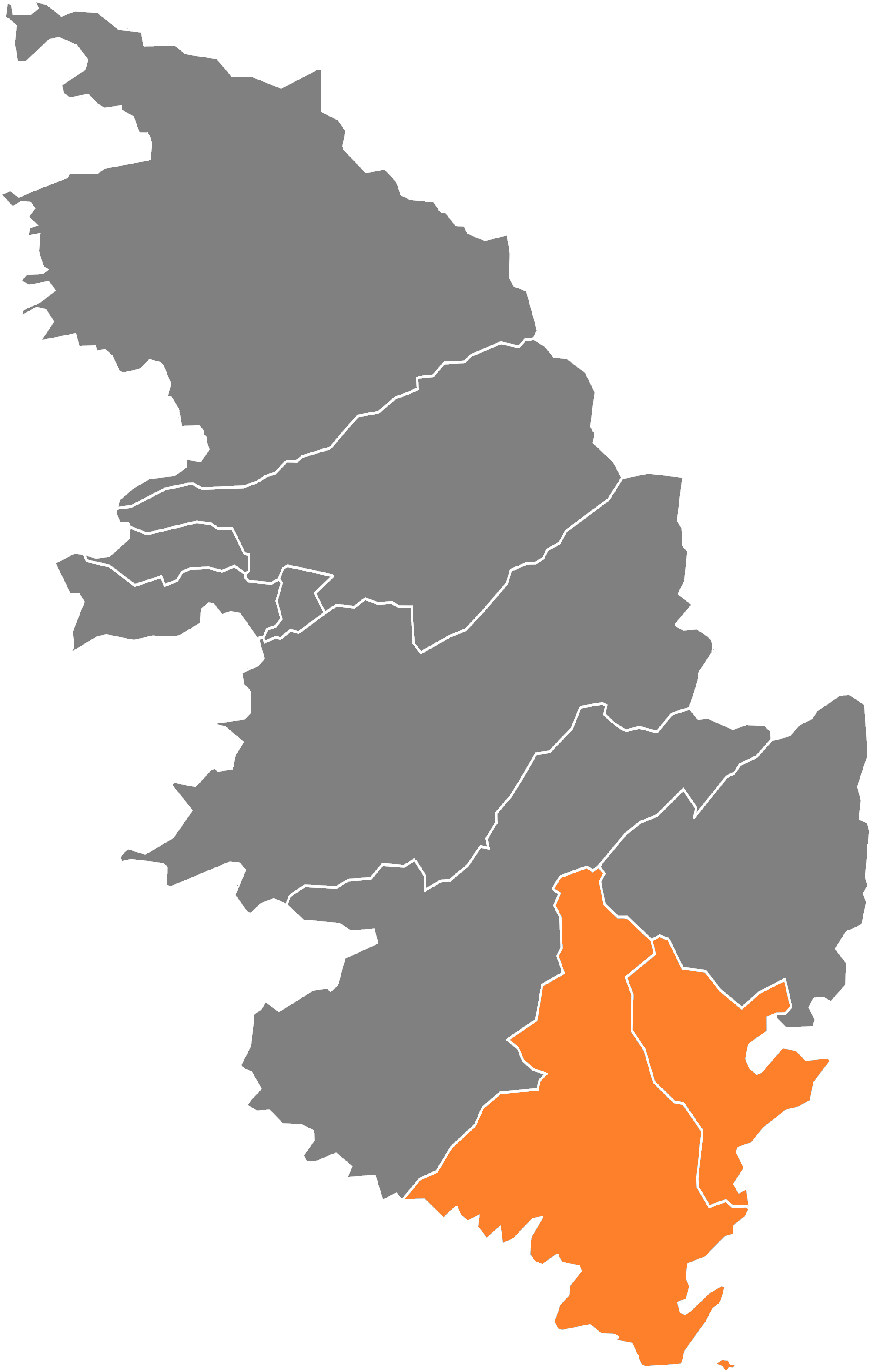 Canton de Grand Sud territory in 2015 on the Corse-du-Sud department map